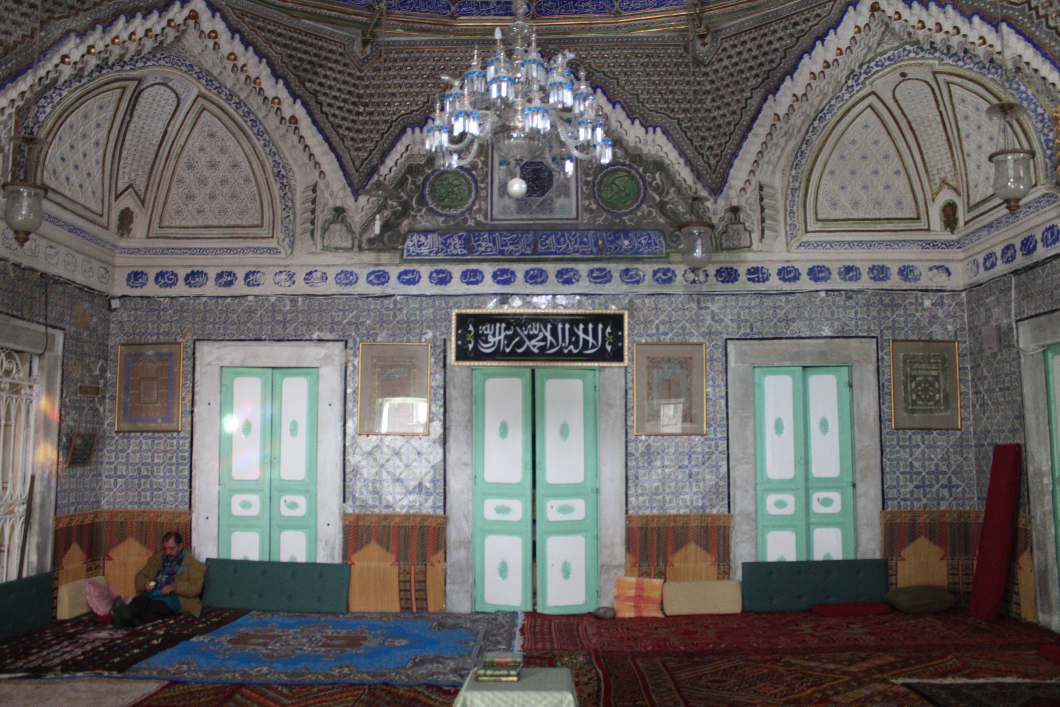 Medina old town of Tunis, Tunis